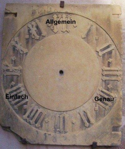 The criterions of Thorngate (Thorngate's postulate of commensurate complexity) on a clock face Unterlinden Museum at Colmar.